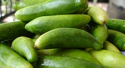 Gherkin (French cornichon; Marathi Tondali)